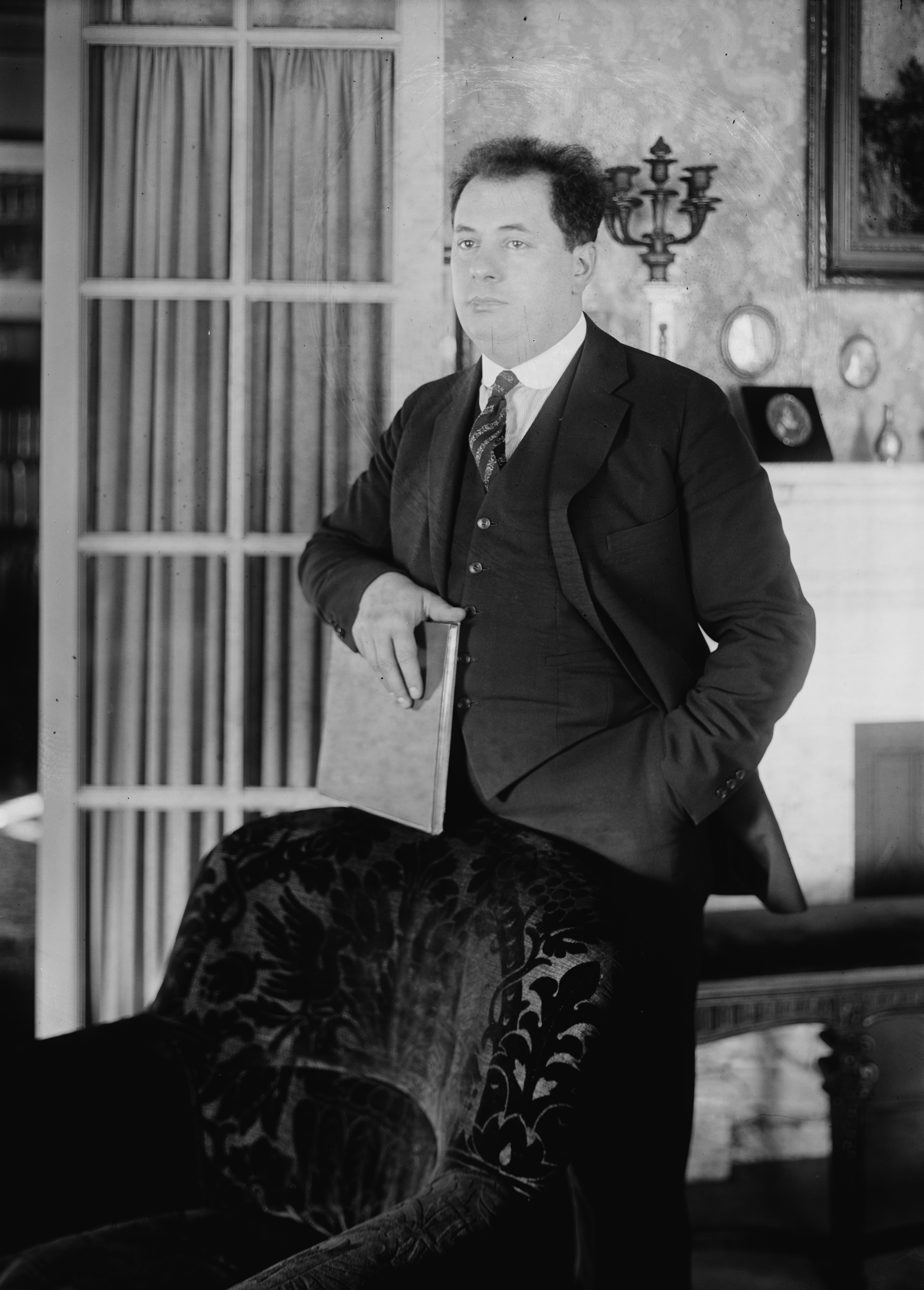 Ignatz Waghalter (1881 – 1949), Polish-German composer and conductor